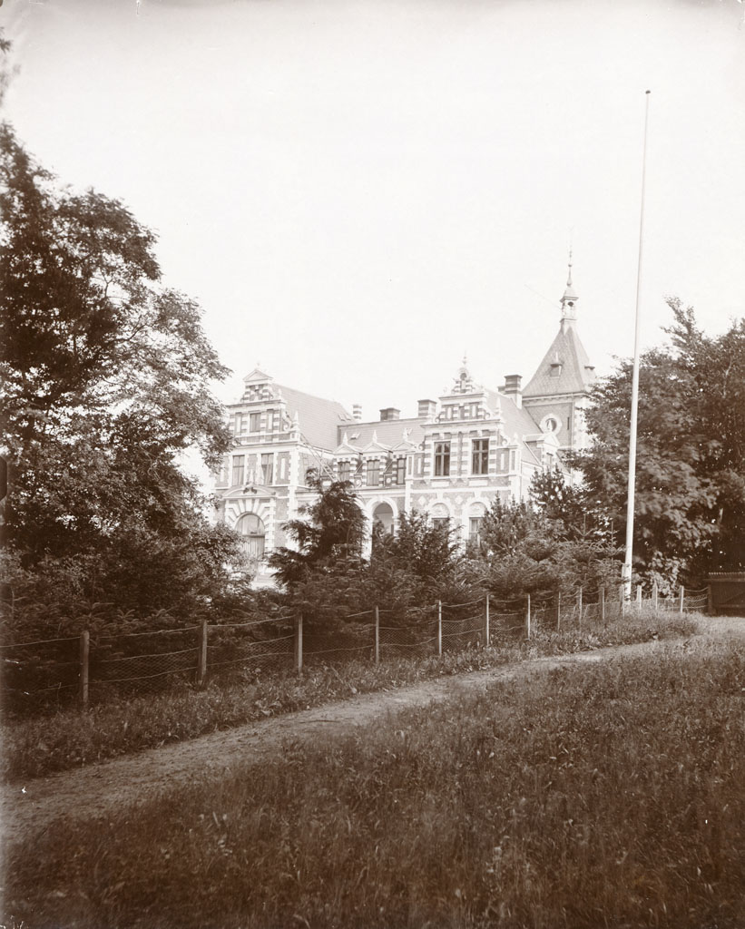 Gurrehus mansion on northern Sjaelland. Built about 1880 by Frederik Tutein, rebuilt in the 1900s. Gurrehus herrgård på norra Själland i Danmark. Uppförd cirka 1880 av Frederik Tutein, ombyggd på 1900-talet. Location: Frederiksborgs amt, Sjaelland, Denmark Photograph by: Carl Curman Date: 1888 Format: Albumen print Persistent URL: Read more about the photo database (in english)